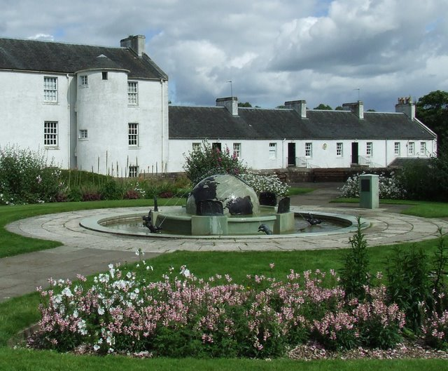 Globe fountain and Shuttle Row, near to Blantyre, South Lanarkshire, Great Britain. Shuttle Row is the birthplace of David Livingstone. See also NS6958 : Globe fountain detail . See the plaque to the right of the fountaine here NS6958 : Globe fountain plaque .